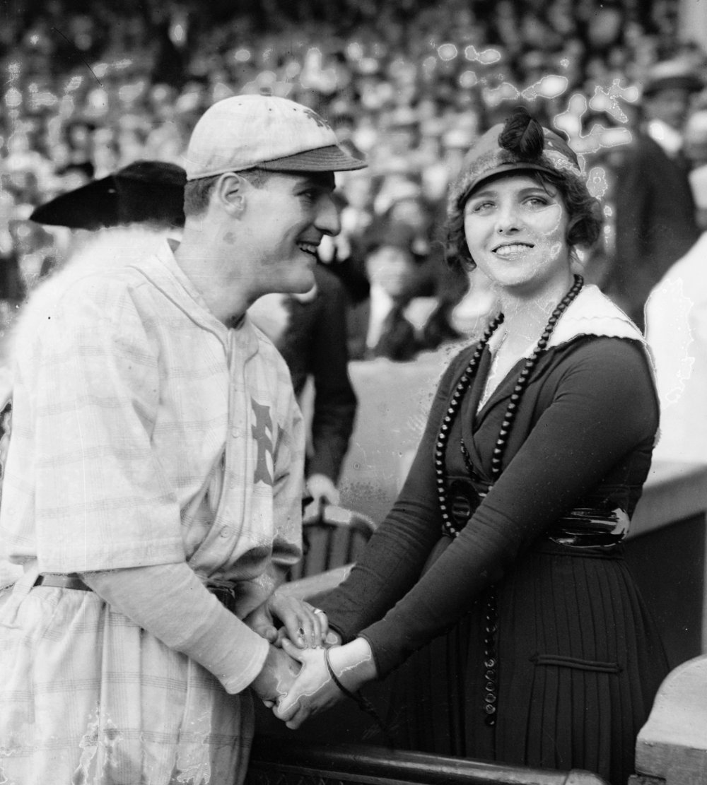 Nigel Barrie and Olive Thomas in the film serial Beatrice Fairfax.